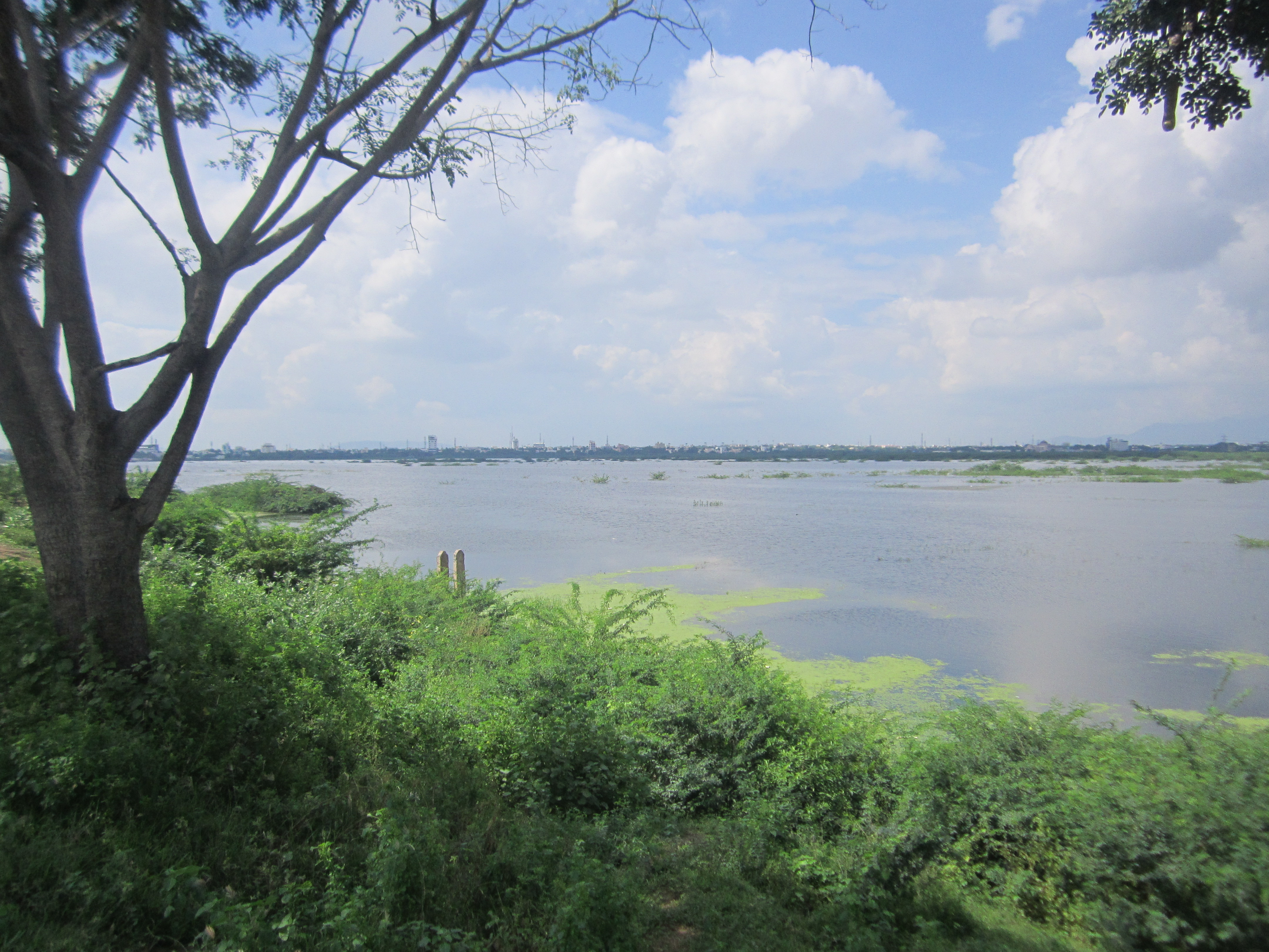 this is photo was taken near Pandi Kovil (Temple), other end of Melamadai Vandiyur lake